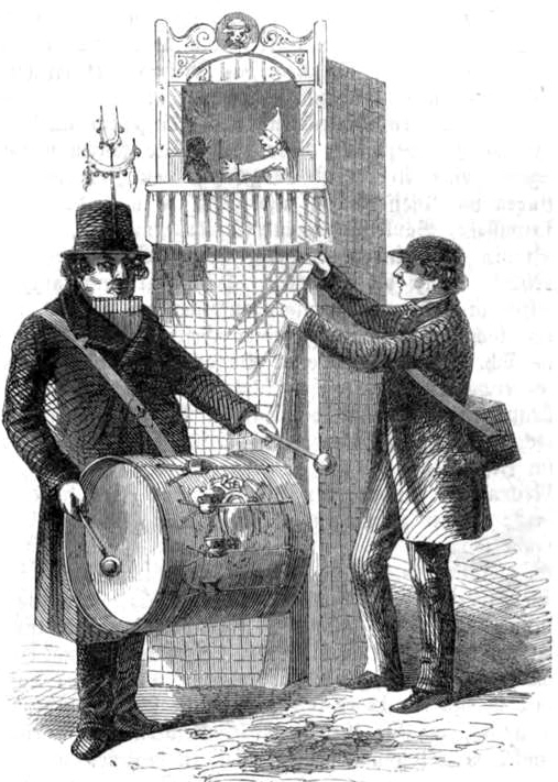 Mr. Punch